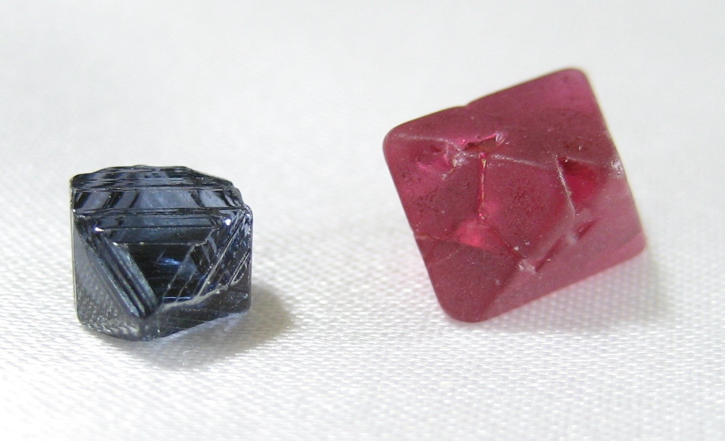 Spinel. 4.13ct and 1.83ct. taken by Azuncha.